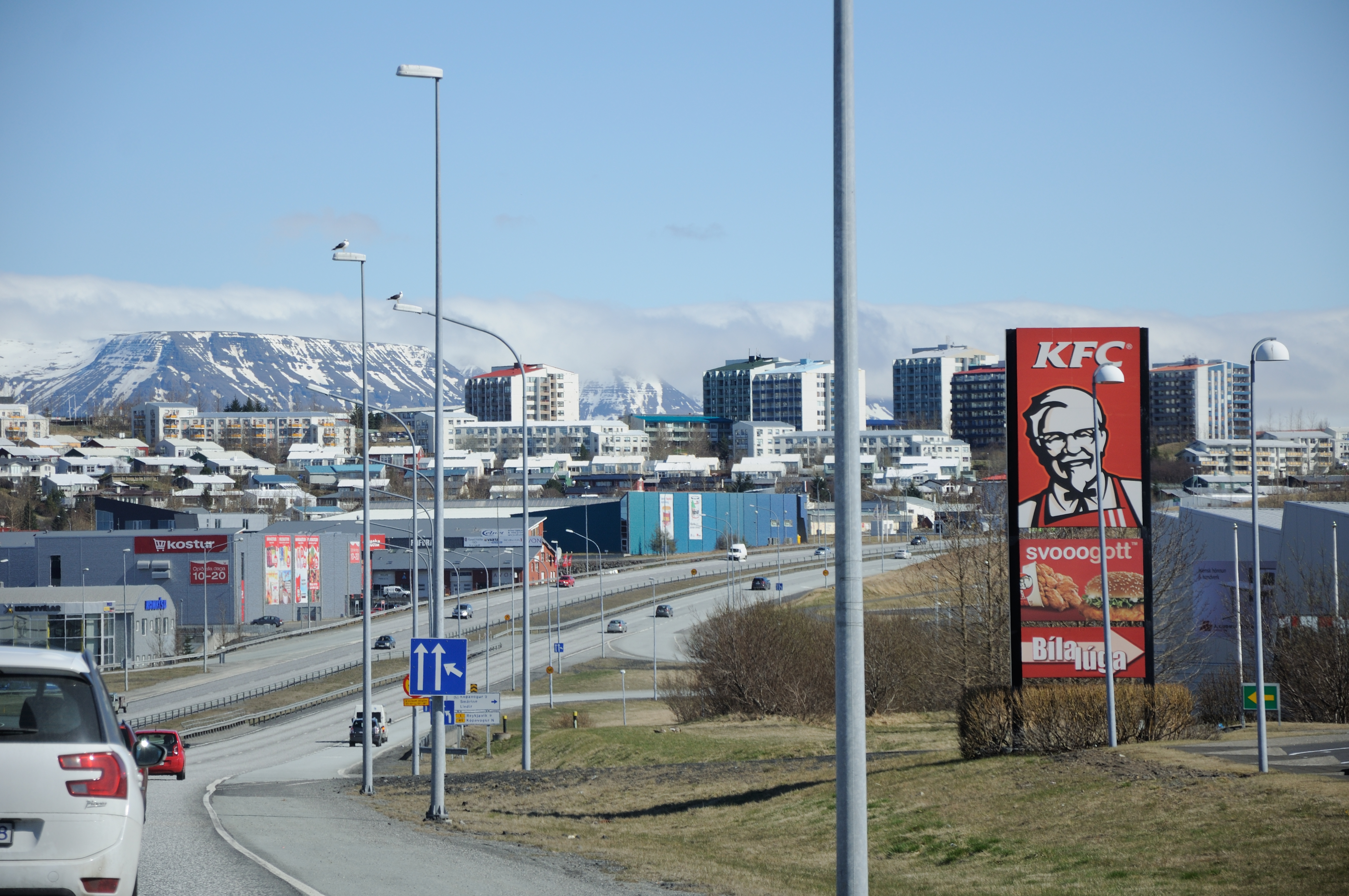 Iceland, impressions on road 41 from Keflavik to Reykjavik